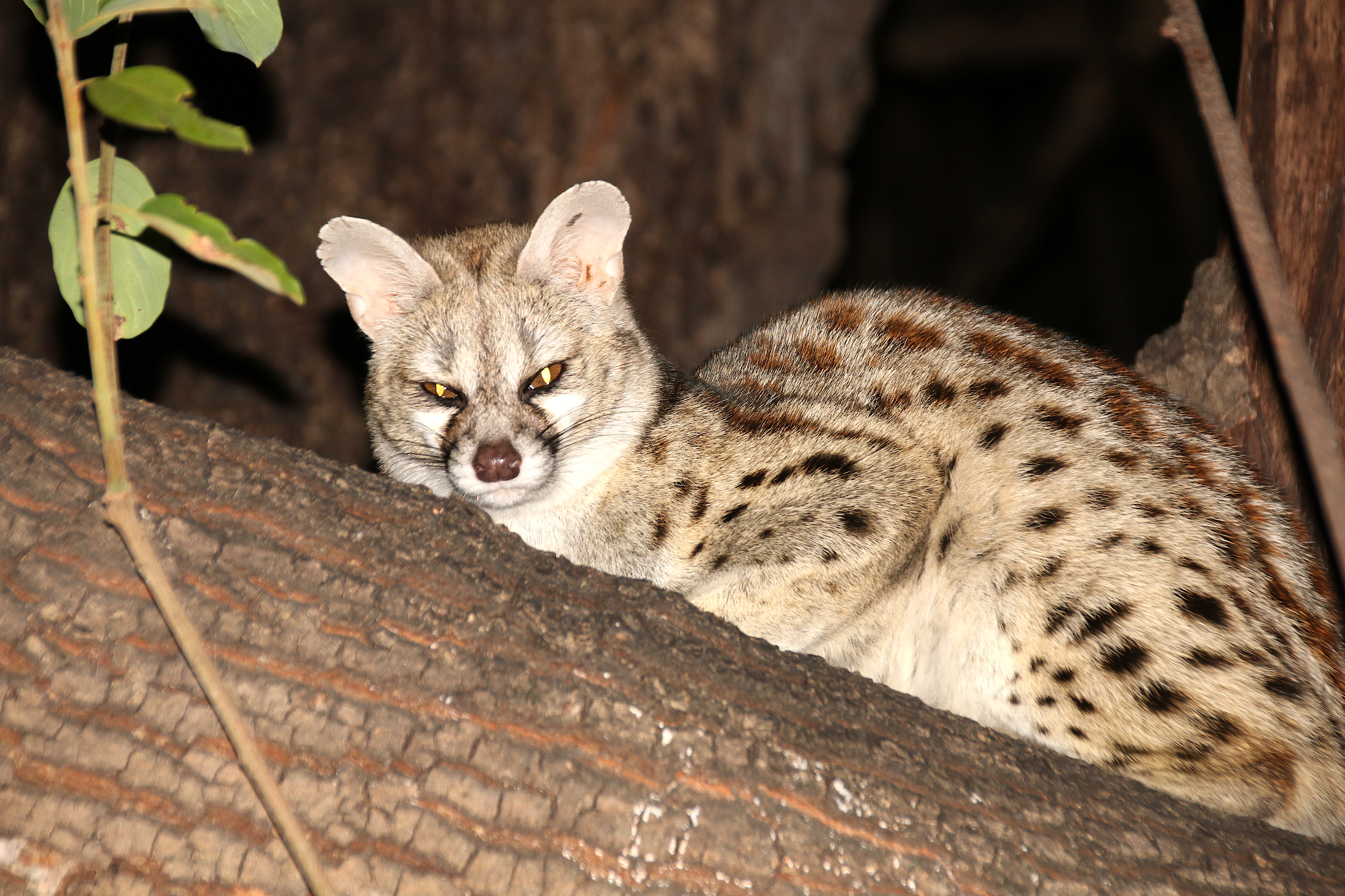 Large-spotted Genet (2019)